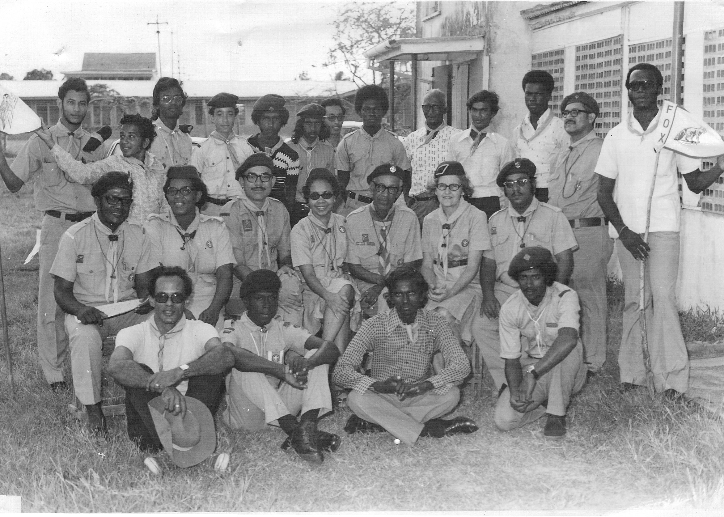 Basic Practical Course, Scout Leaders January 1971; Basic_Practical_Course_Leaders_Jan_1971.png